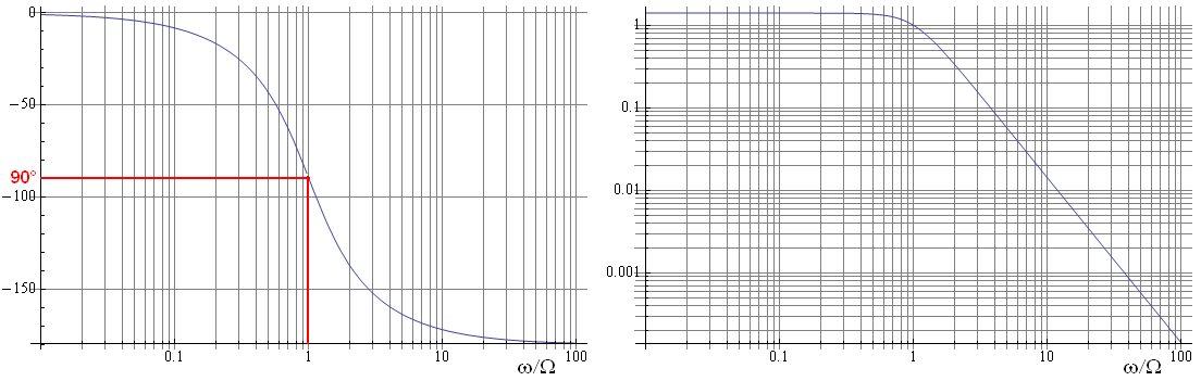 Réponse en fréquence d'une pale